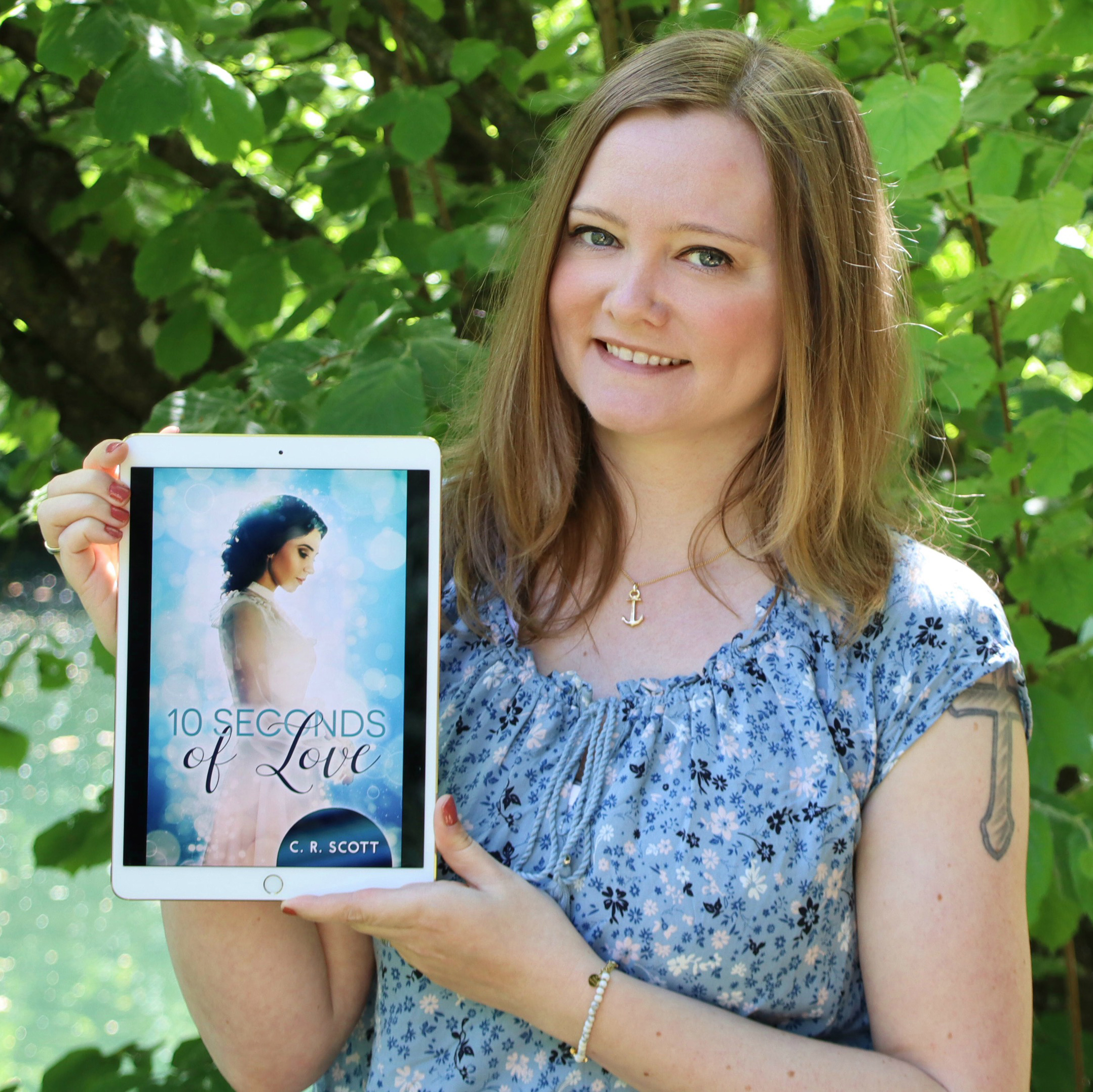 C. R. Scott im Juni 2019 mit ihrem E-Book "10 Seconds of Love"